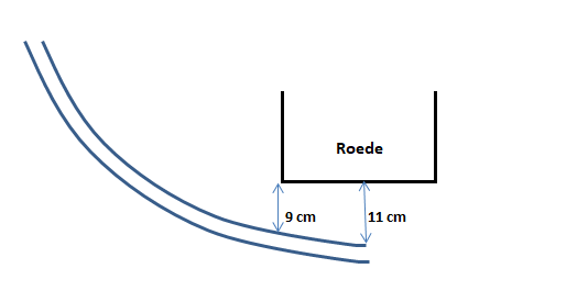 Spleet fokwiek Tolhuys Coornmolen, Lobith